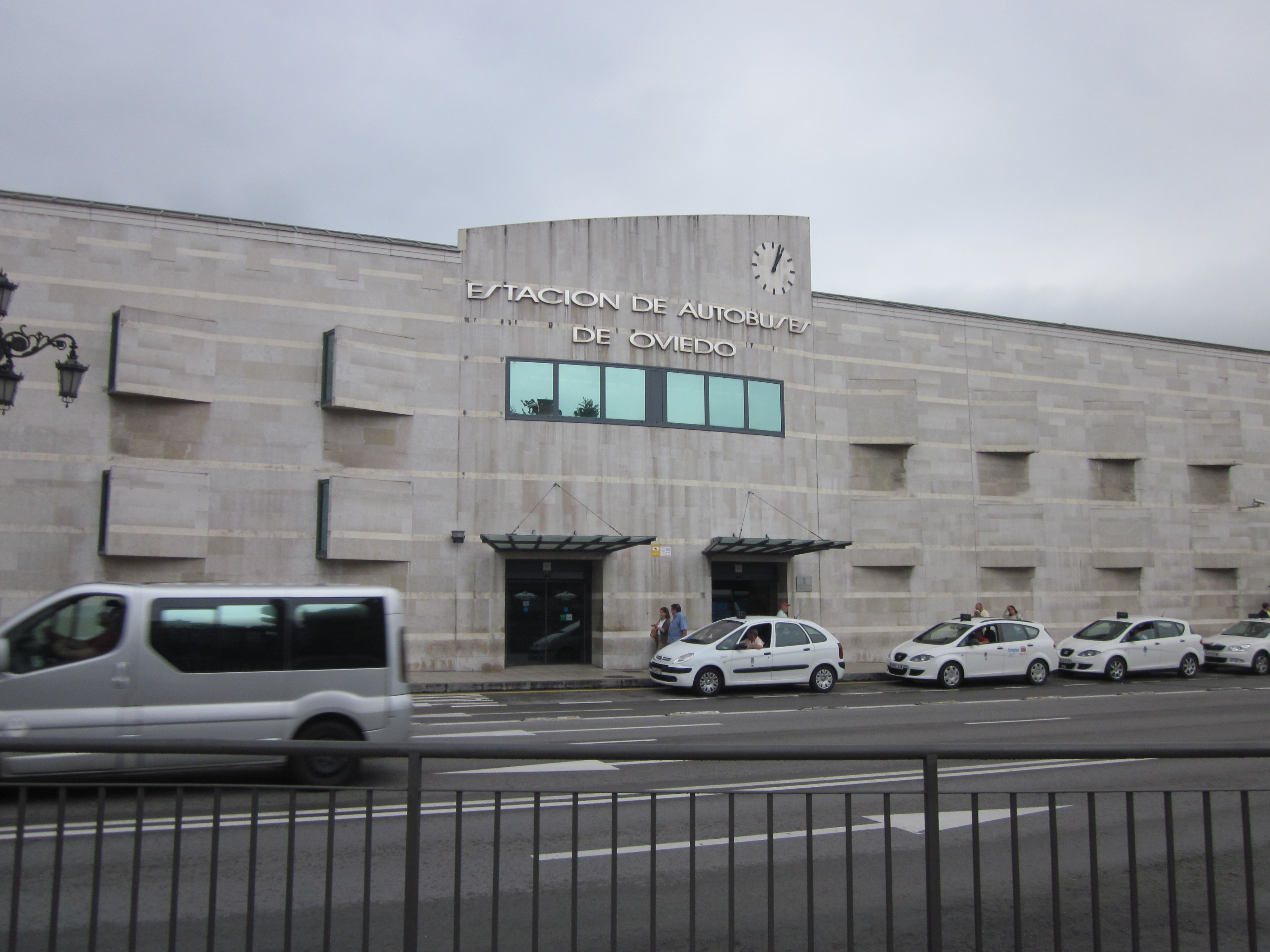 Bus Station in Oviedo. Principality of Asturias. Spain.